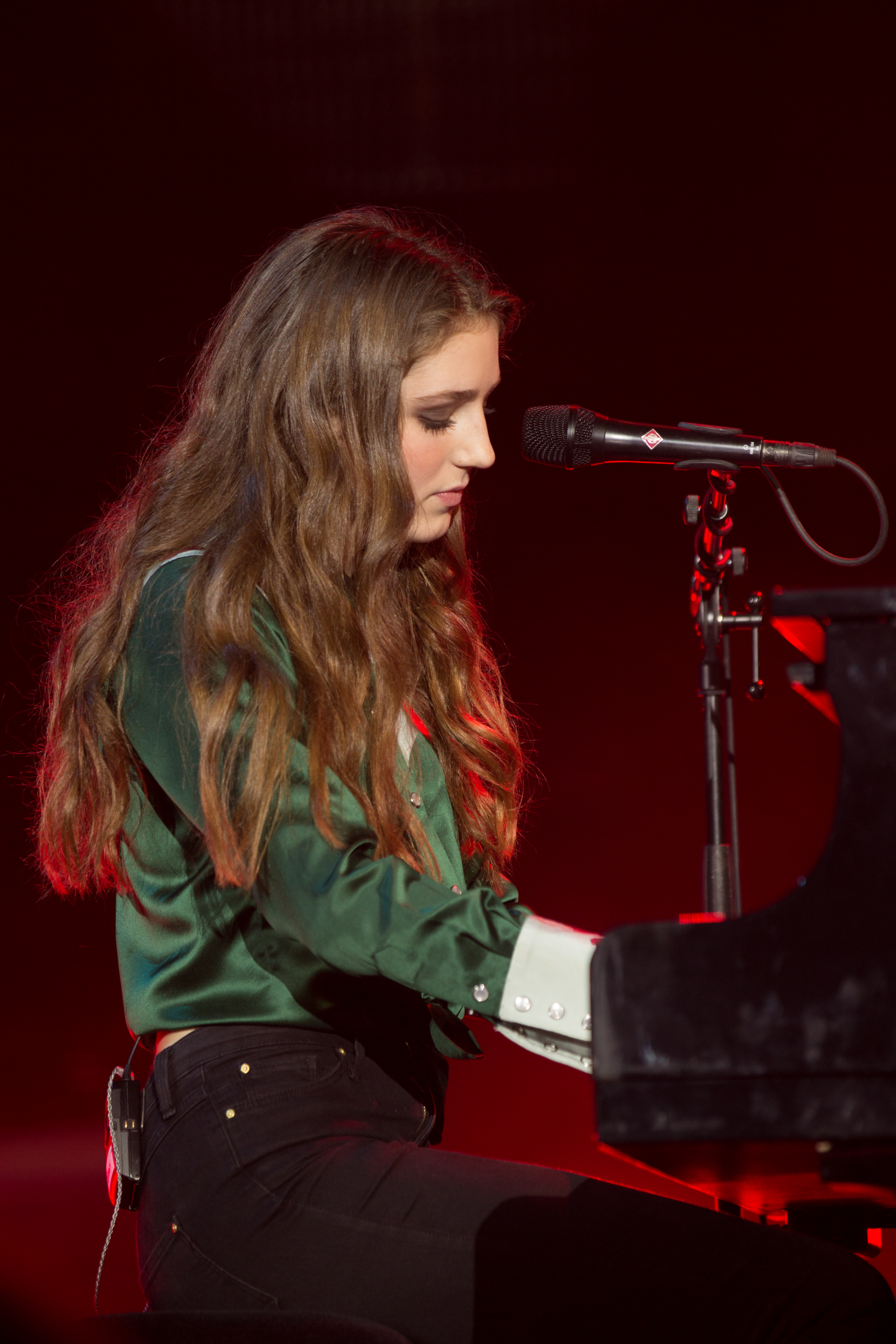 Birdy at the SWR3 New Pop Festival in Baden-Baden 2013 Festivalsommer This photo was created with the support of donations to Wikimedia Deutschland in the context of the CPB project "Festival Summer".